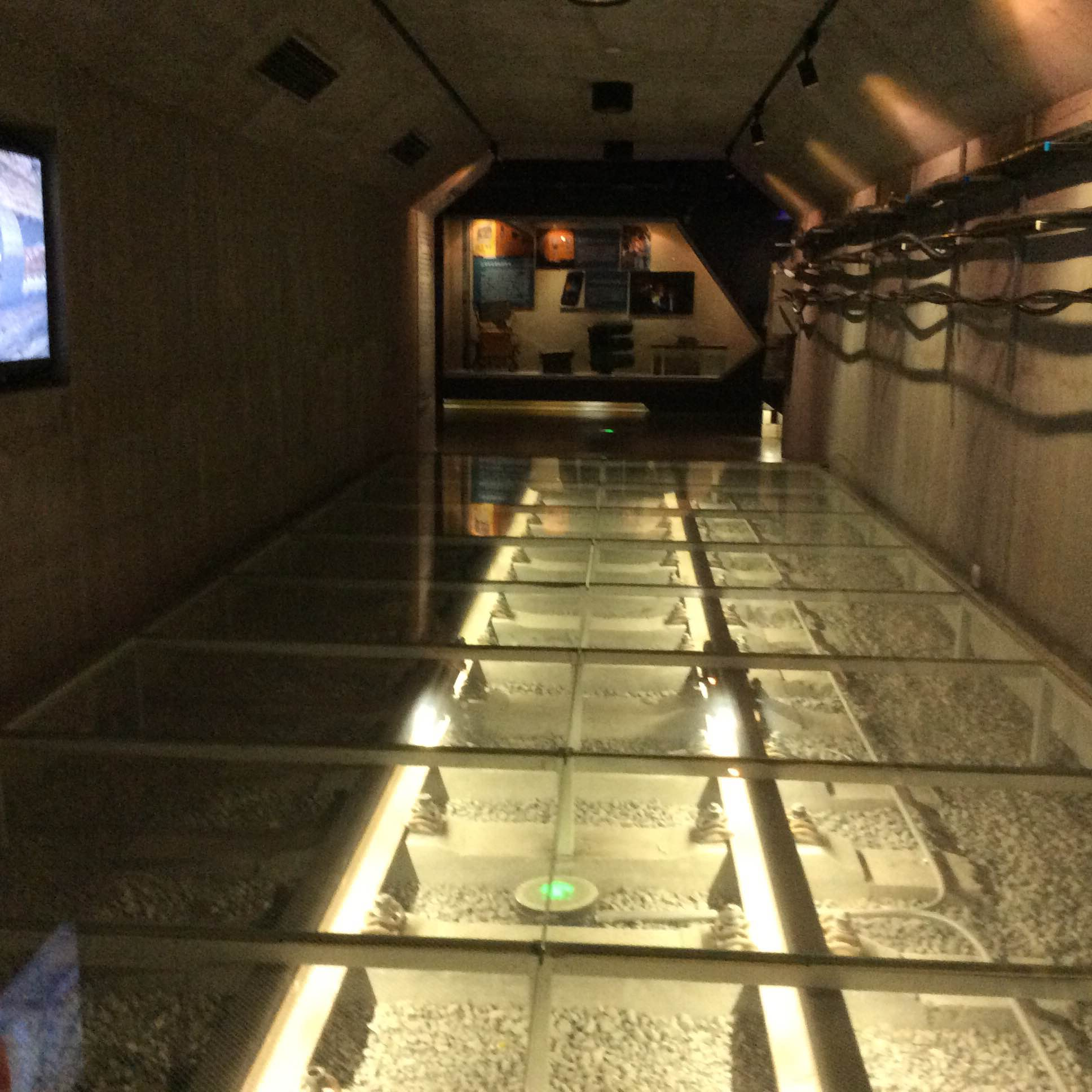 The mockup tunnel in the shanghai metro museum.